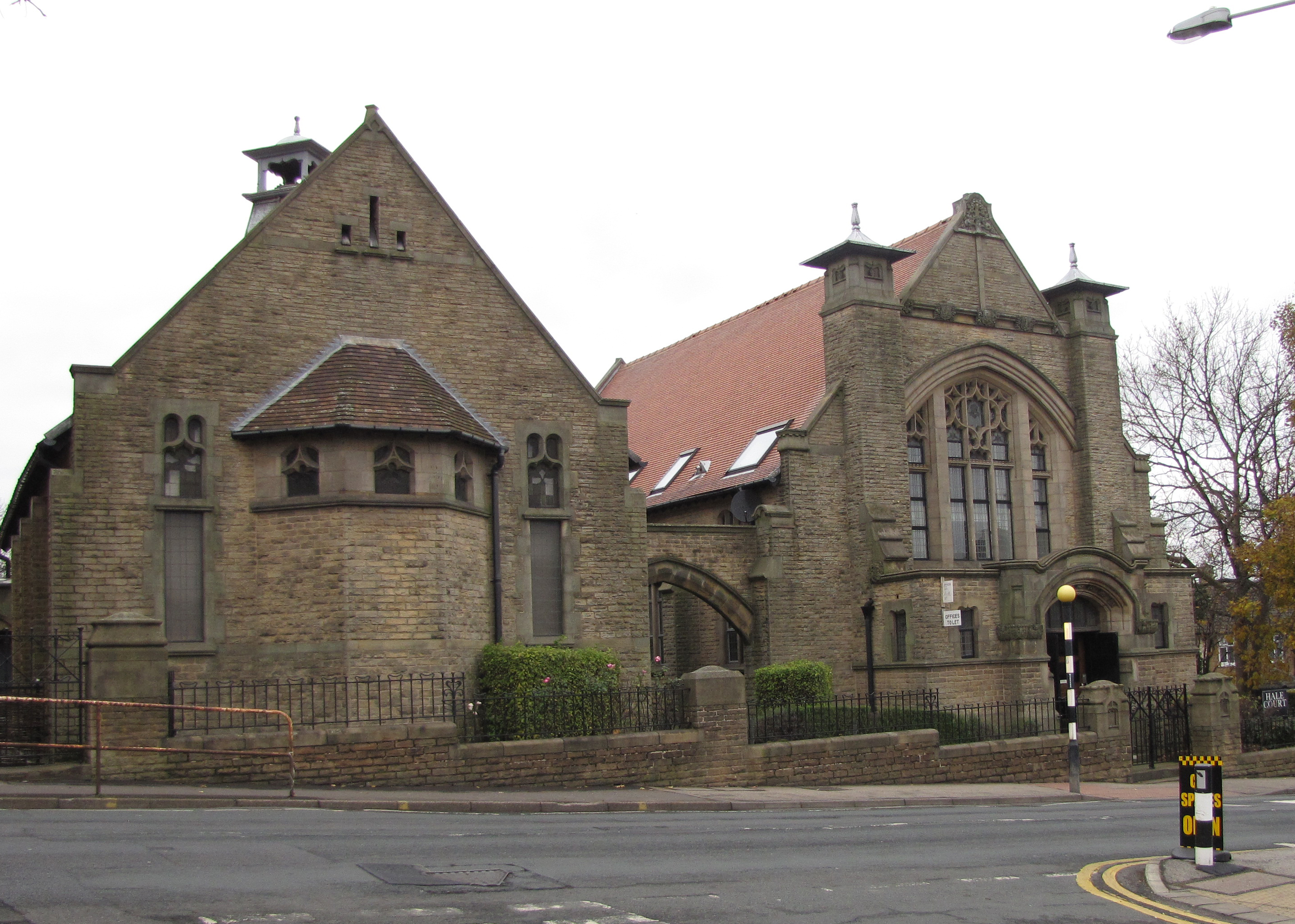 Hale Court, Northfield Road, Crookes, Sheffield, South Yorkshire, seen from the southeast. Built in 1900 as St Luke's Wesleyan Methodist church and school; converted in 1990 into a house and apartments.